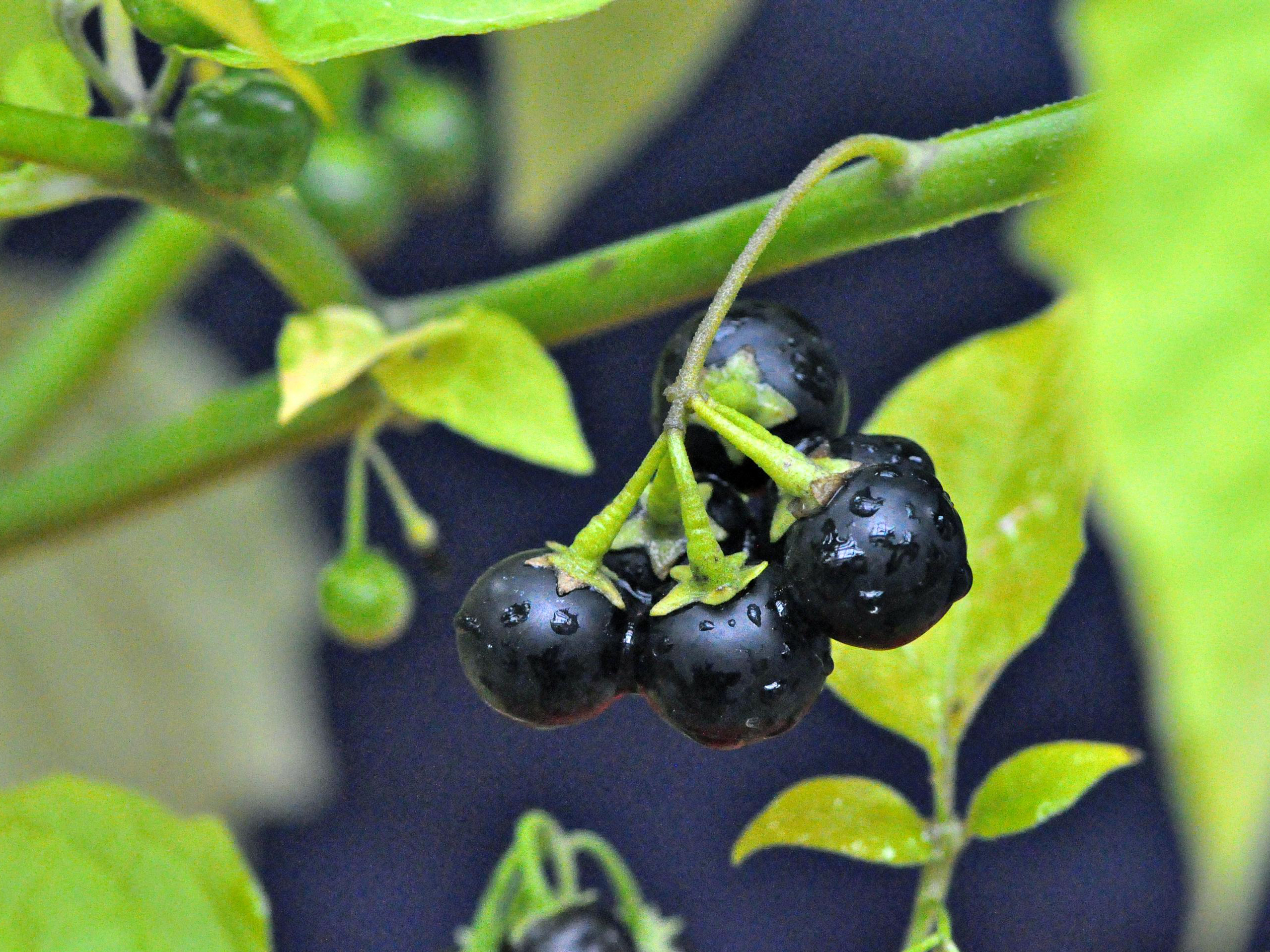 Solanum ptychanthum Dunal - West Indian nightshade